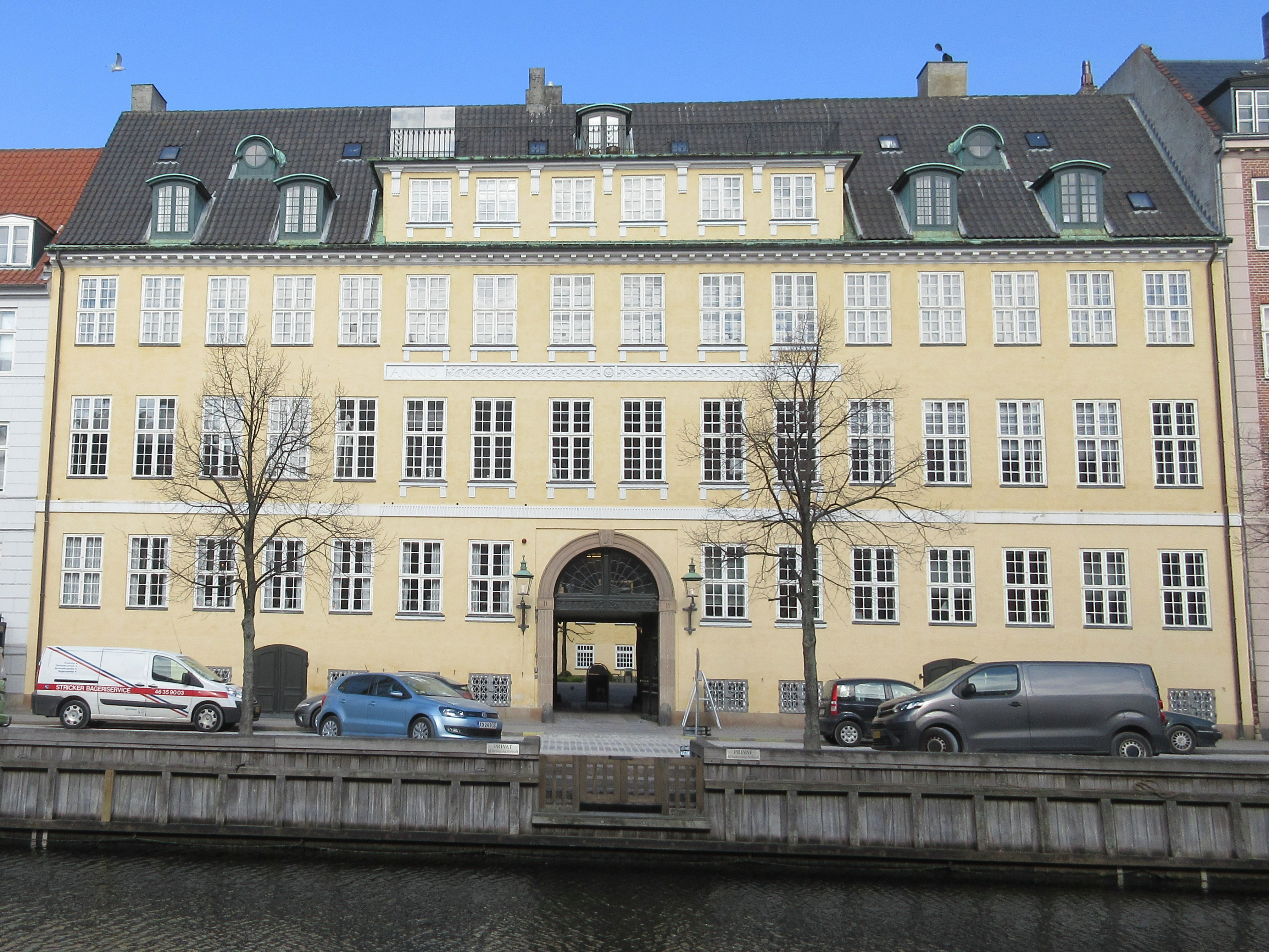 Heering House in Christianshavn, Copenhagen, Denmark